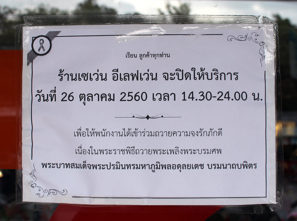 Mourning for King Bhumibol Adulyadej, closure sign at 7-Eleven at 26th Oct. 2017